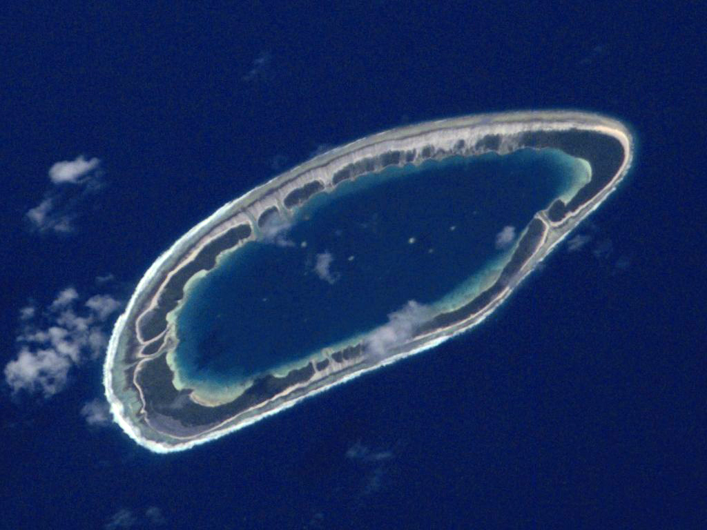 NASA astronaut image of Maria Est atoll (Tuamotu Archipelago, French Polynesia) in the Pacific Ocean